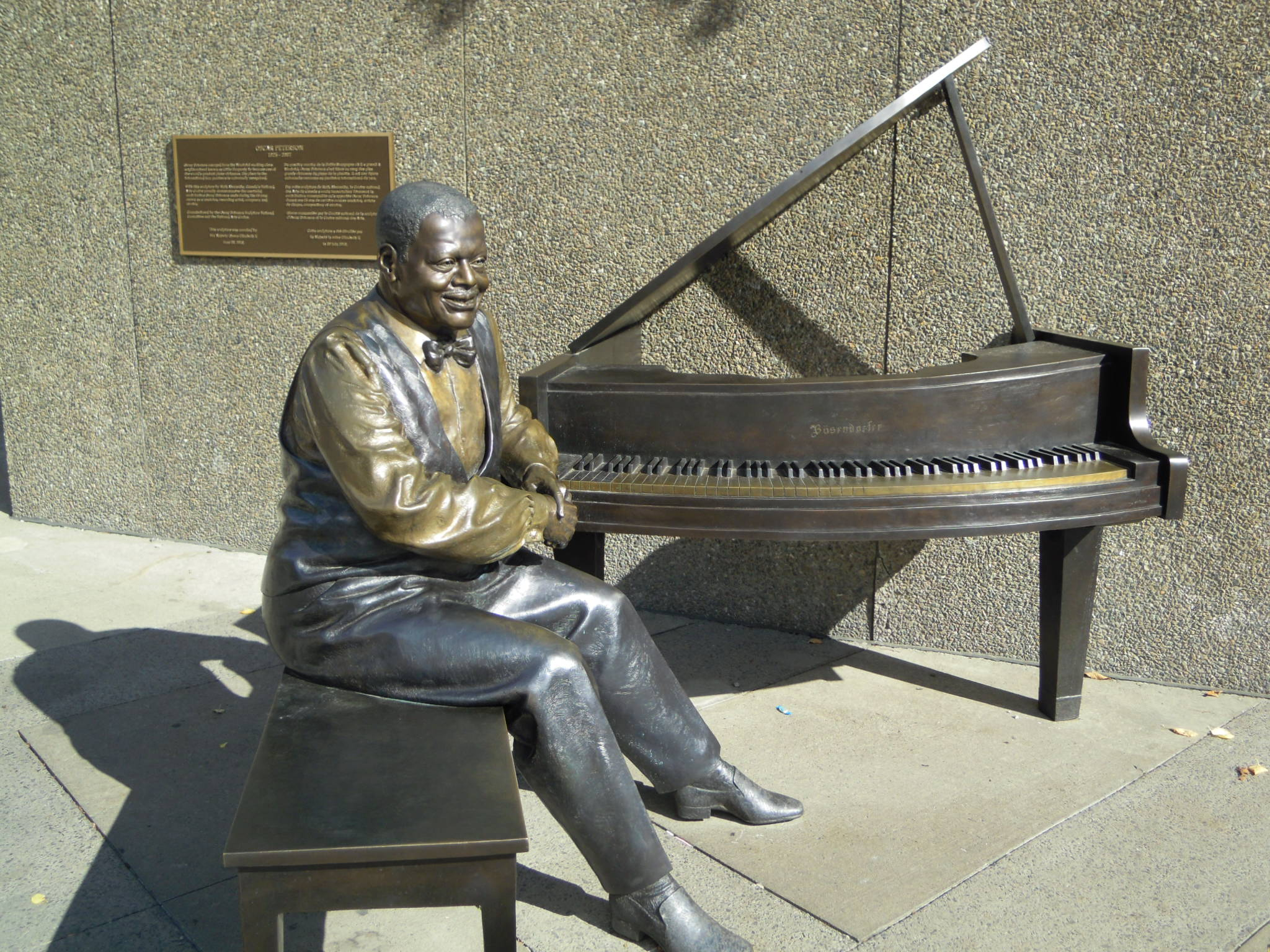 Statue of pianist Oscar Peterson on Elgin Street at the National Arts Centre, Ottawa, Canada.